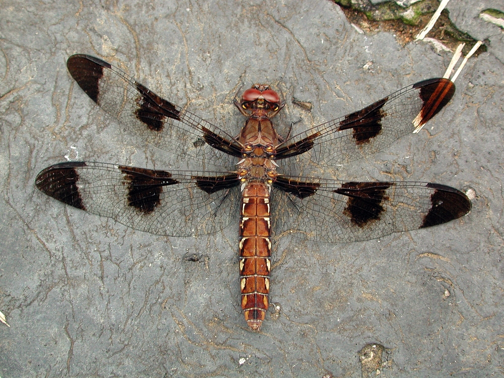 Odonata species Libellula lydia (female common whitetail dragonfly), Patapsco Valley State Park, Catonsville, Baltimore, Maryland, USA